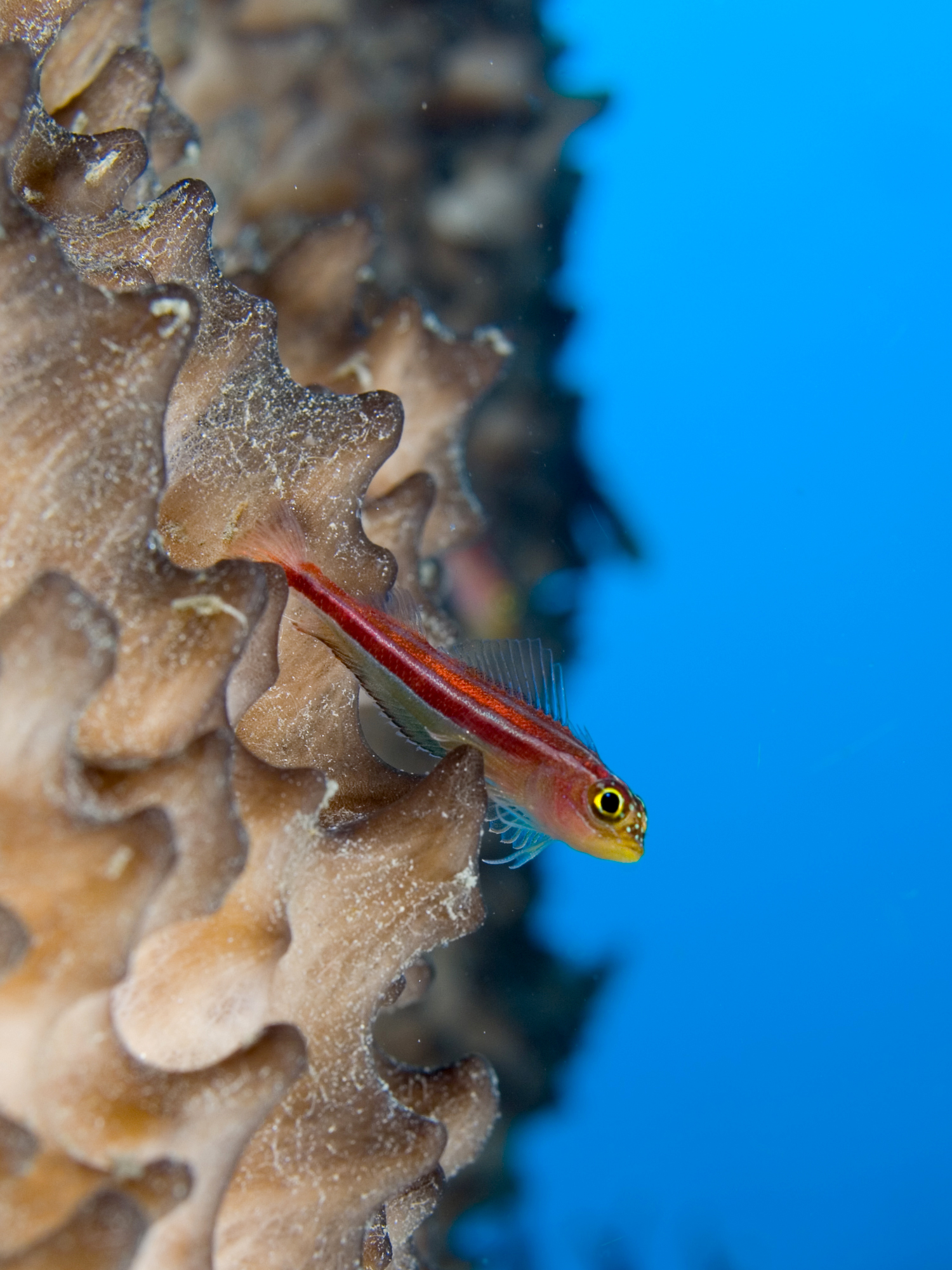 Neon triplefin Helcogramma striata